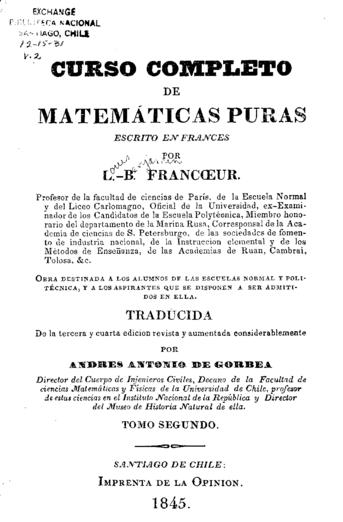 First page of "Cours de Mathématiques by Louis-Benjamin Francoeur translated into Spanish by Andrés Antonio Gorbea, published in Santiago de Chile in 1845